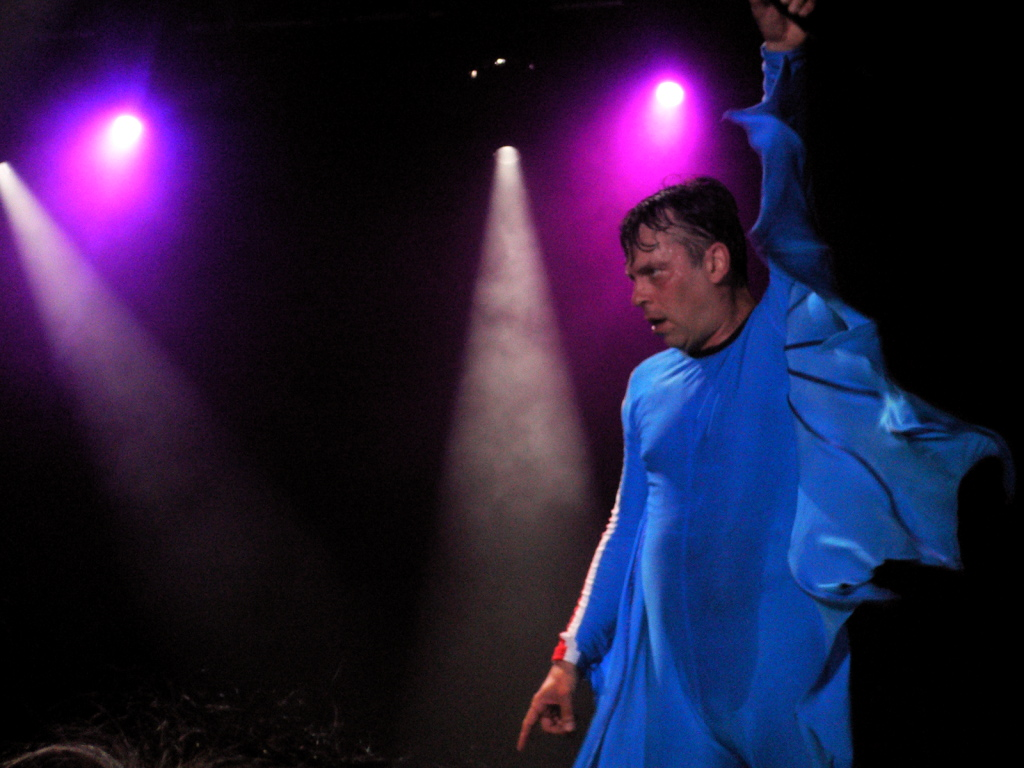 Emir Kusturica & The No Smoking Orchestra. Els Concerts de l'Estiu: Emir Kusturica & TNSO. Poble Espanyol, Barcelona, Spain. Thursday 2 July 2009.